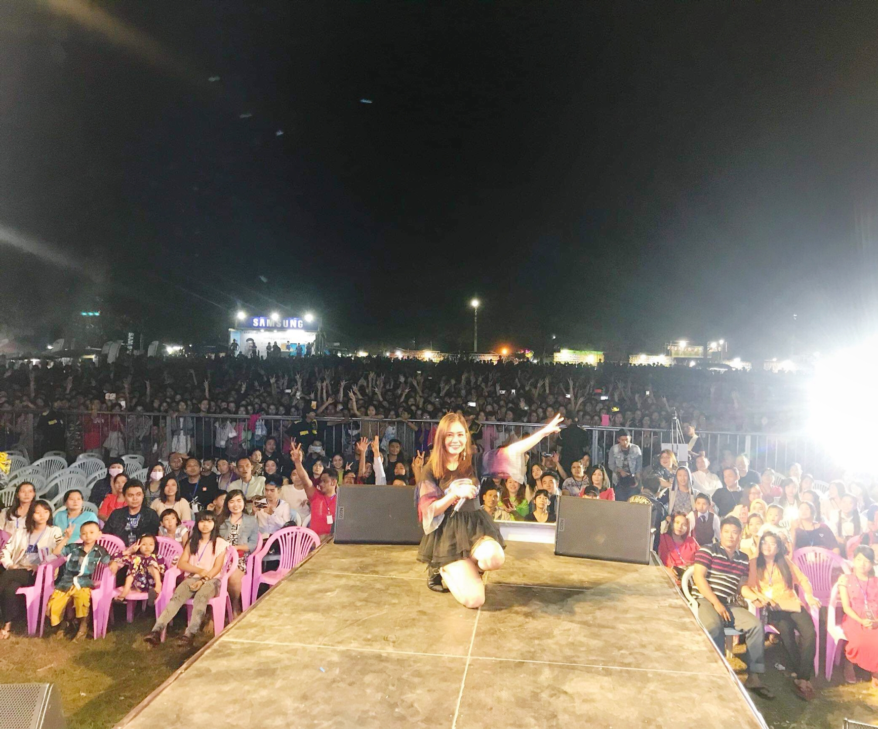 Mee No is a Burmese singer